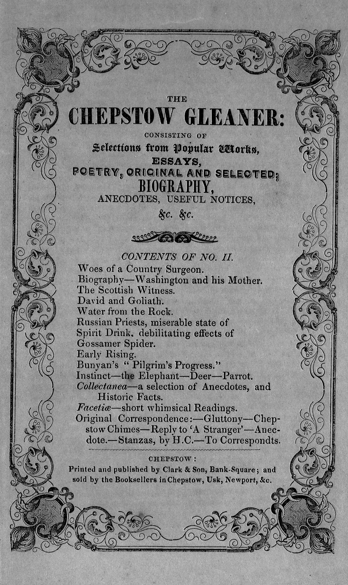 A monthly periodical that published articles on general subjects, extracts form published works and poetry. The periodical was edited by James Clark (1818-1913), a member of the family that owned Clark and Son, Chepstow.